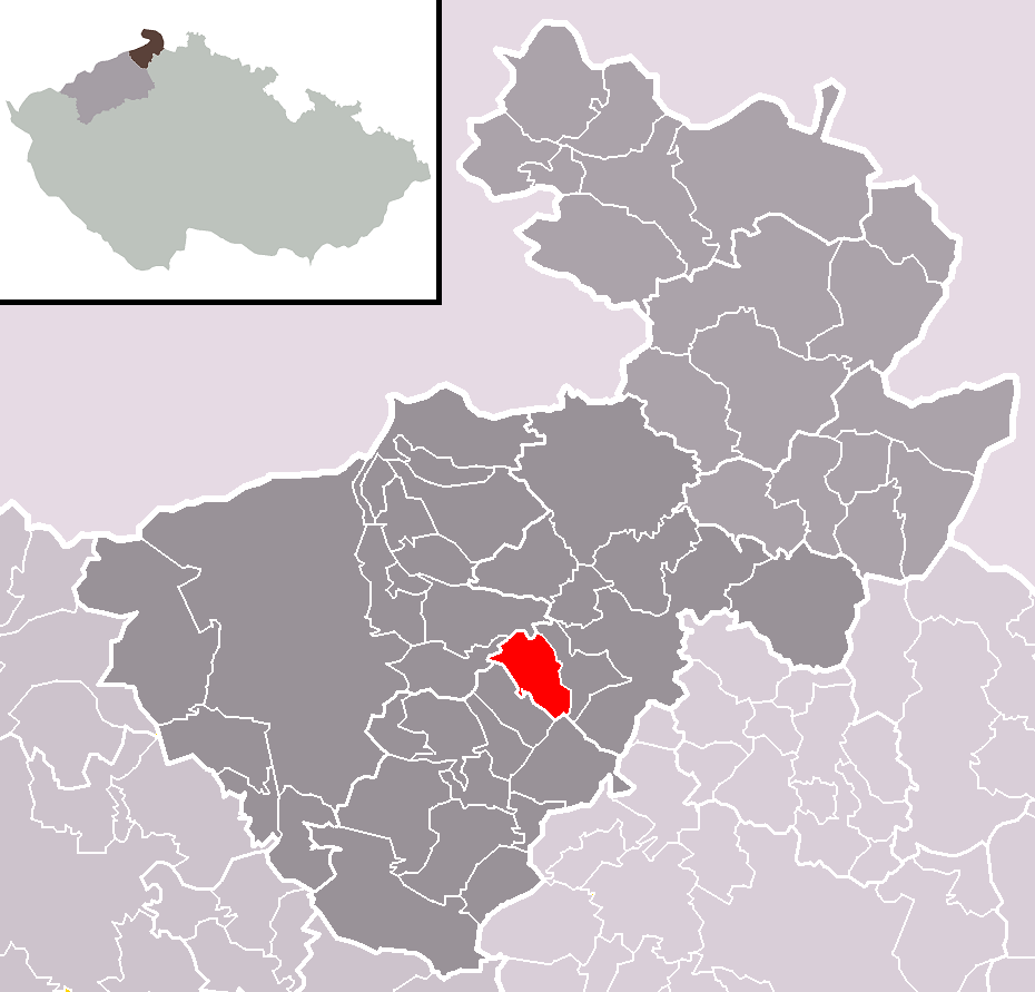 Location of Markvartice municipality within Děčín District and administrative area of Děčín as a Municipality with Extended Competence.